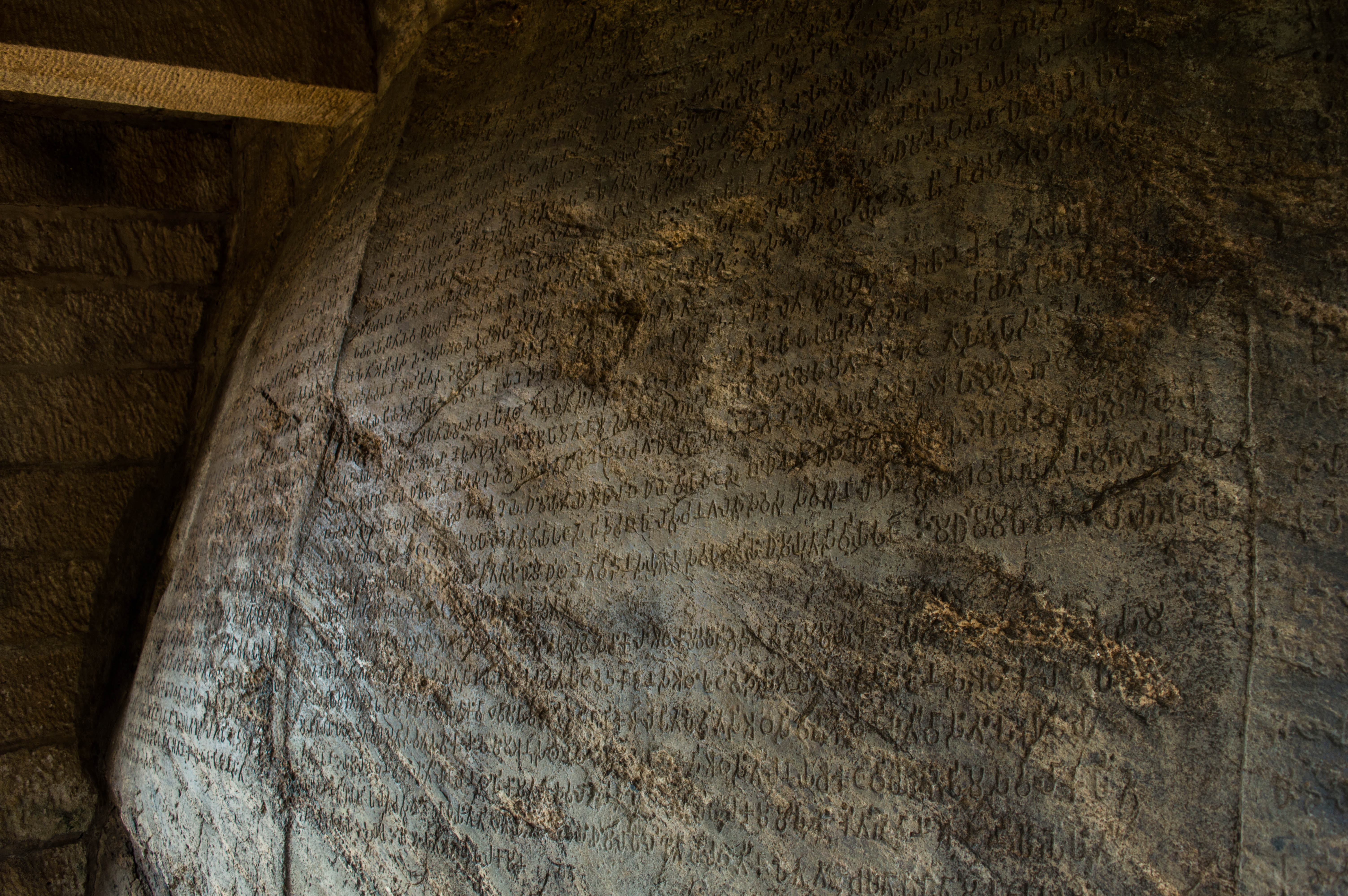 Edicts of Ashoka inscribed on a rock near Dhauli, Odisha